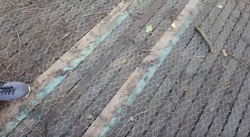 After the removal of the rails, there is some evidence of previous use.